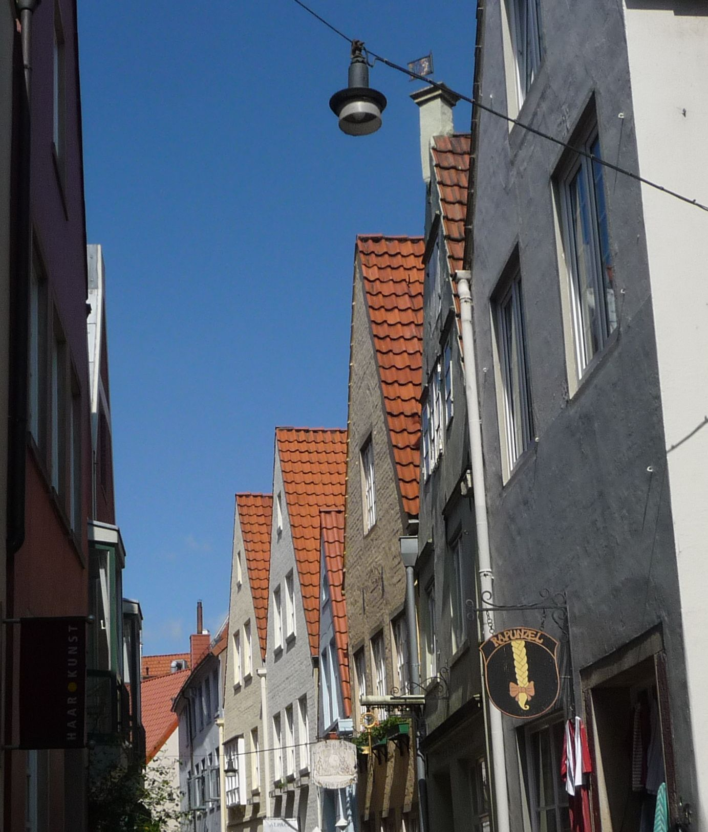 Schnoor (street in Bremen, Germany)